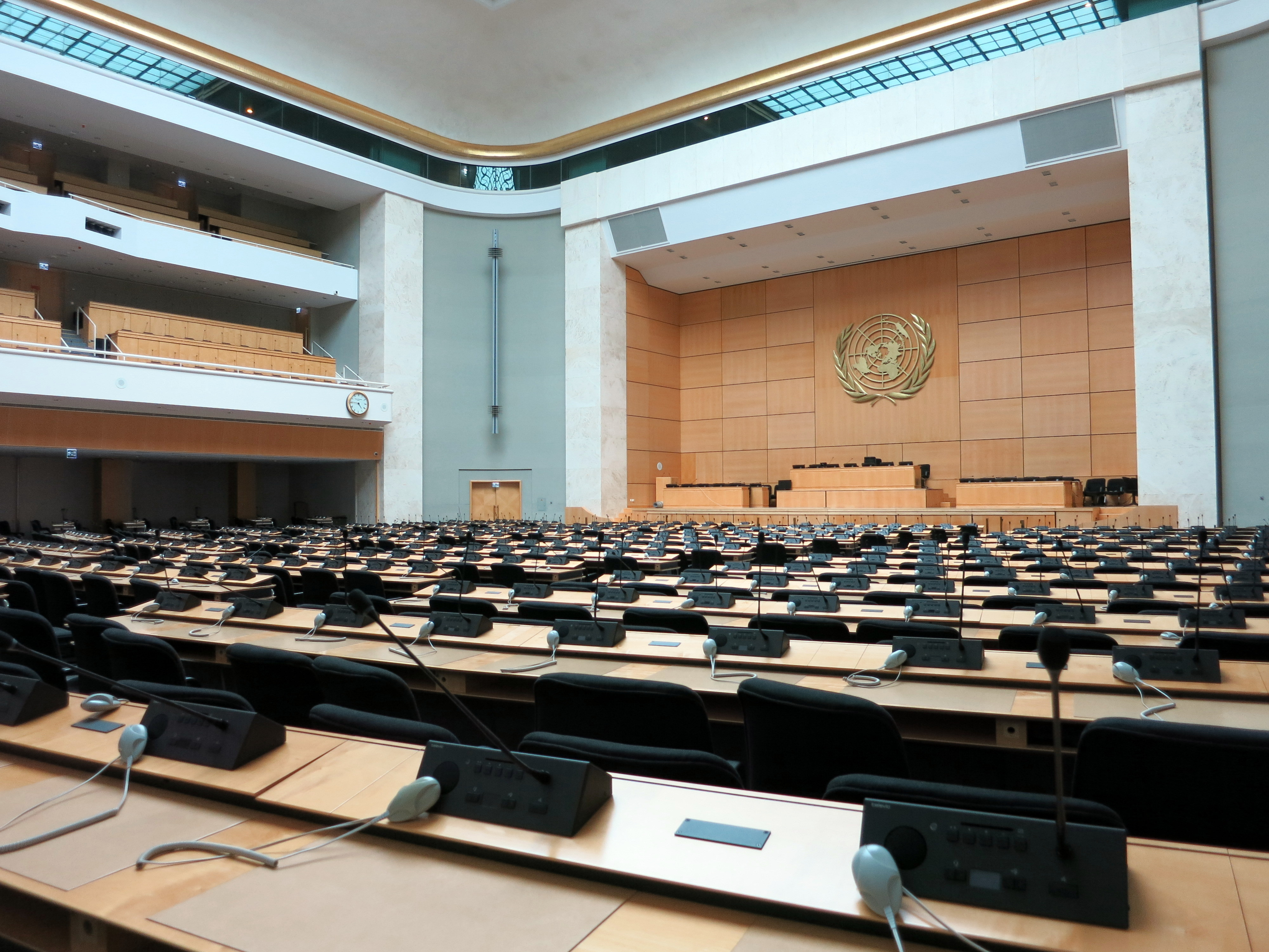 View from a desk in the Assembly Hall at the Palais des Nations